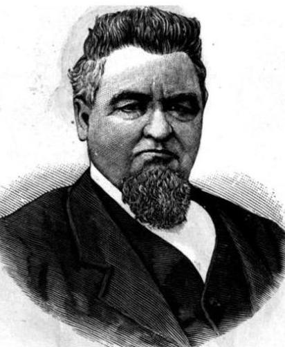 Roswell G. Horr, US Representative from Michigan